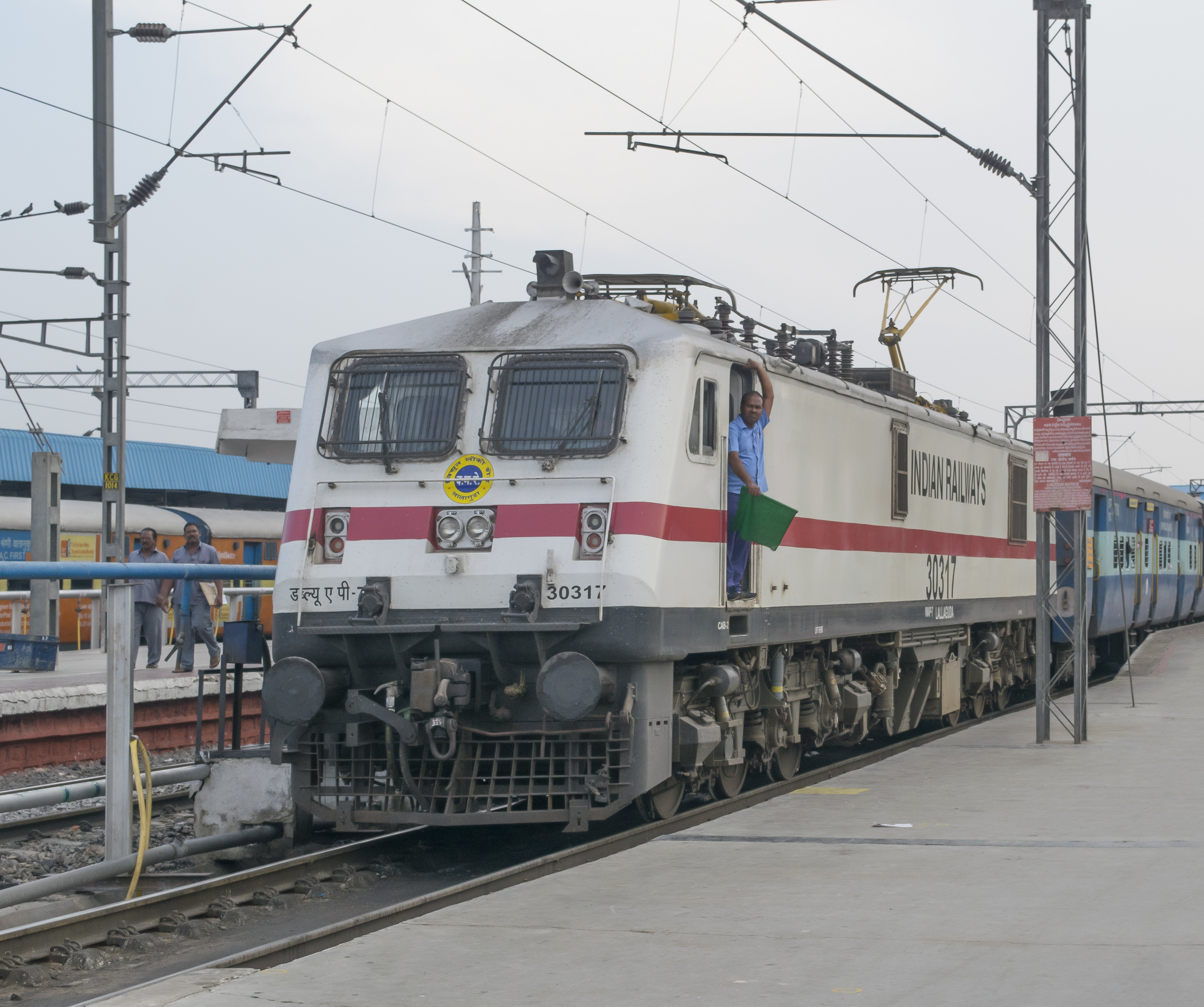 A WAP7, hauling New Delhi-bound AP Sampark Kranti Express, leaving Kacheguda Railway Station